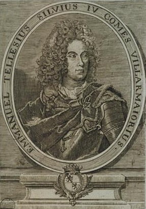 Marquês de Algrete, Conde de Vila Maior